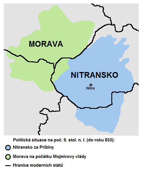 Principality of Nitra under Pribina and Principality of Moravia under Mojmir I, until 833 AD (Czech translation).